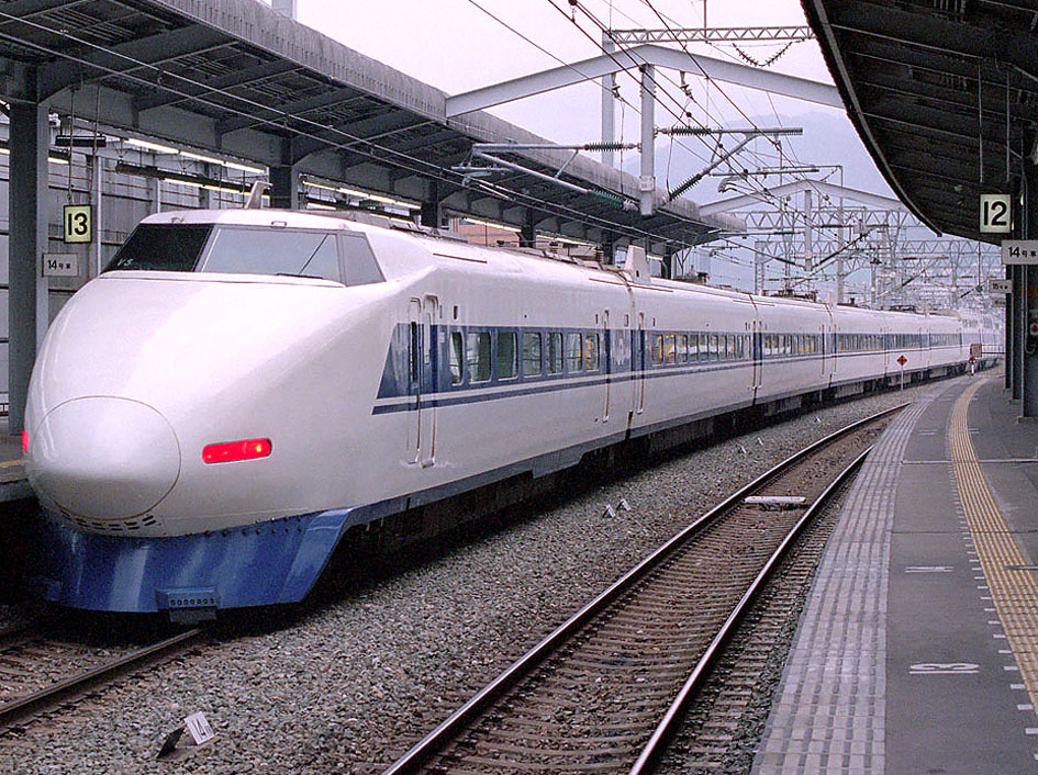 JR West 100 series Shinkansen for Grand Hikari set V5 at Kokura Station